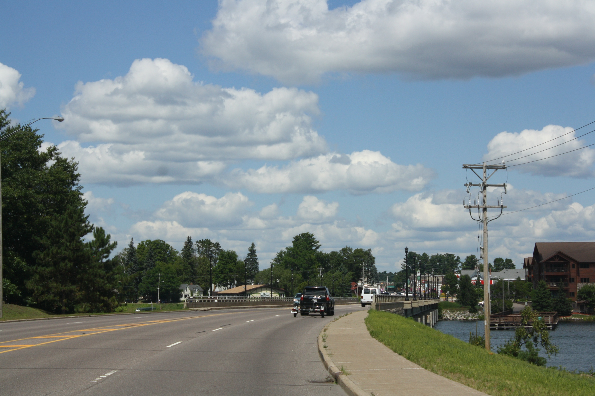 Looking northerly at the bridge for Lake Minocqua in Minocqua (CDP), Wisconsin on US 51.